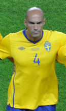 Daniel Majstorović (Sweden) before the UEFA Euro 2012 qualifying match against San Marino on September 7, 2010